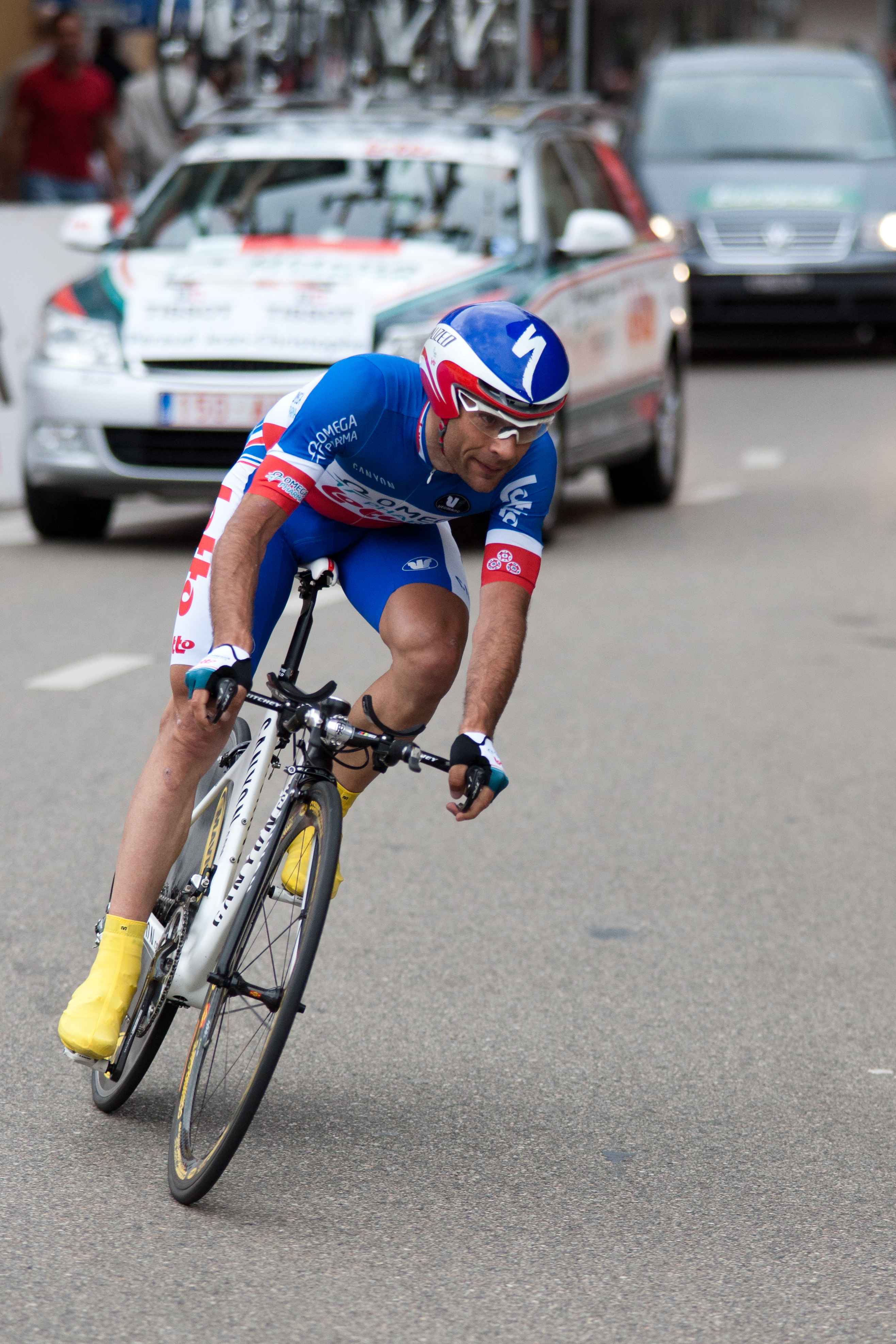 Jean-Christophe Peraud the 3rs stage of the Tour de Romandie 2010.